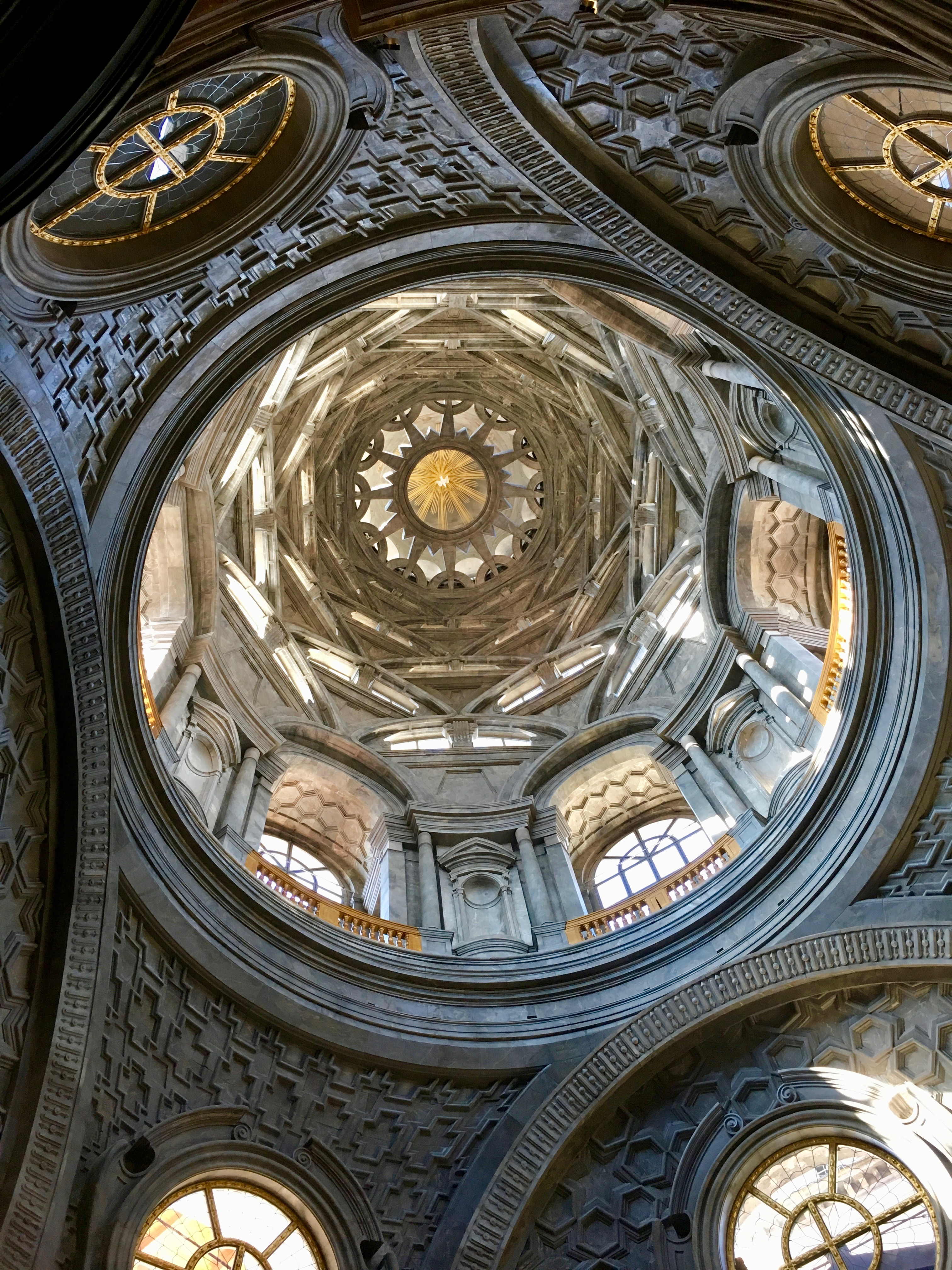 A picture of the cupola of the Chapel of the Holy Shroud, seen from the inside, located in Turin, Italy.